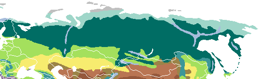 Terrestrial biomes and Vegetation zones in Russia and adjacent Asian regions.